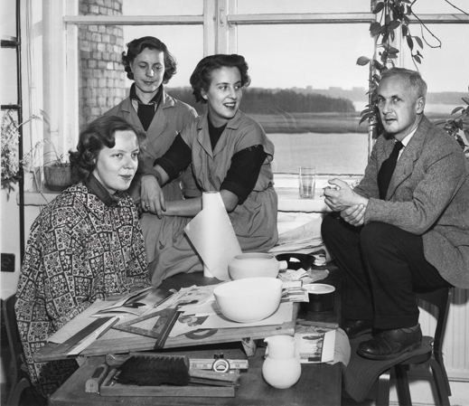 Photograph of the design team of Arabia: Kaarina Aho (left), Saara Hopea, Ulla Procopé, and Kaj Franck.